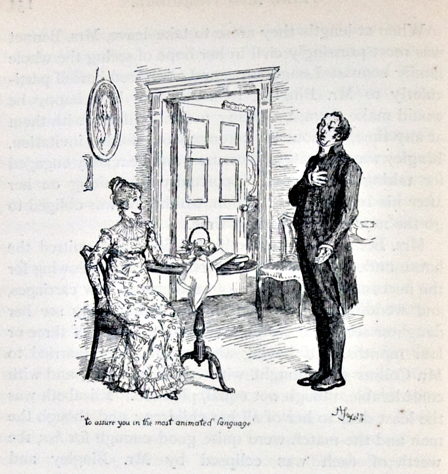 "To assure you in the most animated language" - Mr. Collins proposing to Elizabeth. Austen, Jane. Pride and Prejudice. London: George Allen, 1894.